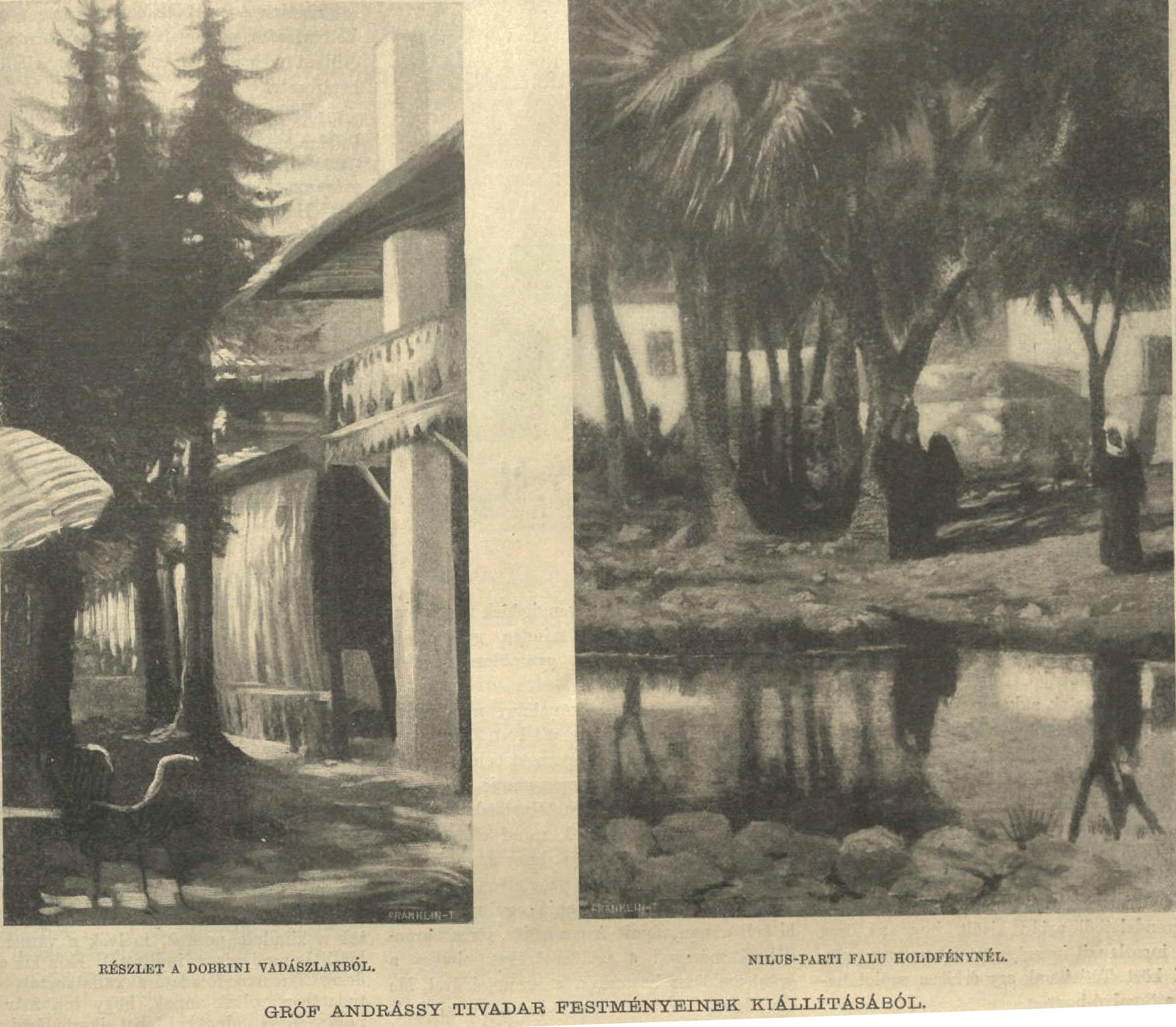 Two paintings of Tivadar Andrássy